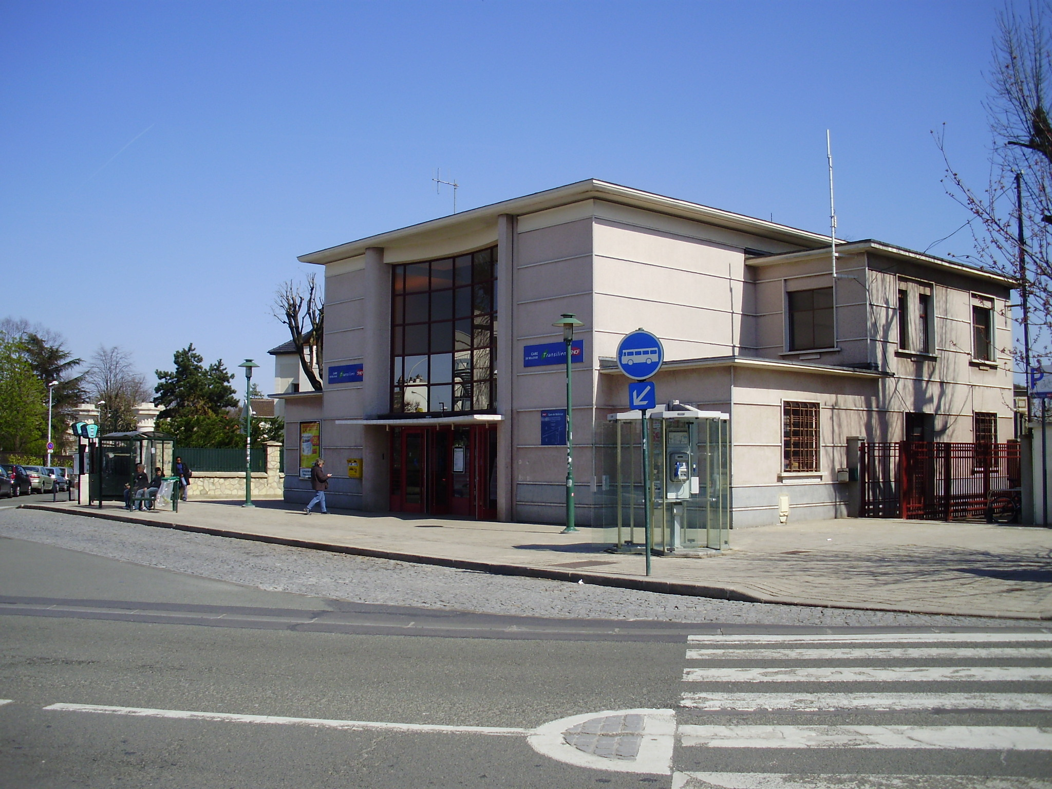 Bellevue station - building, in Meudon, Hauts-de-Seine, France